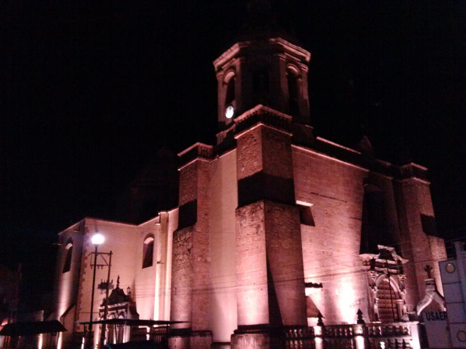 Parroquia de Nuestra Señora de Guadalupe